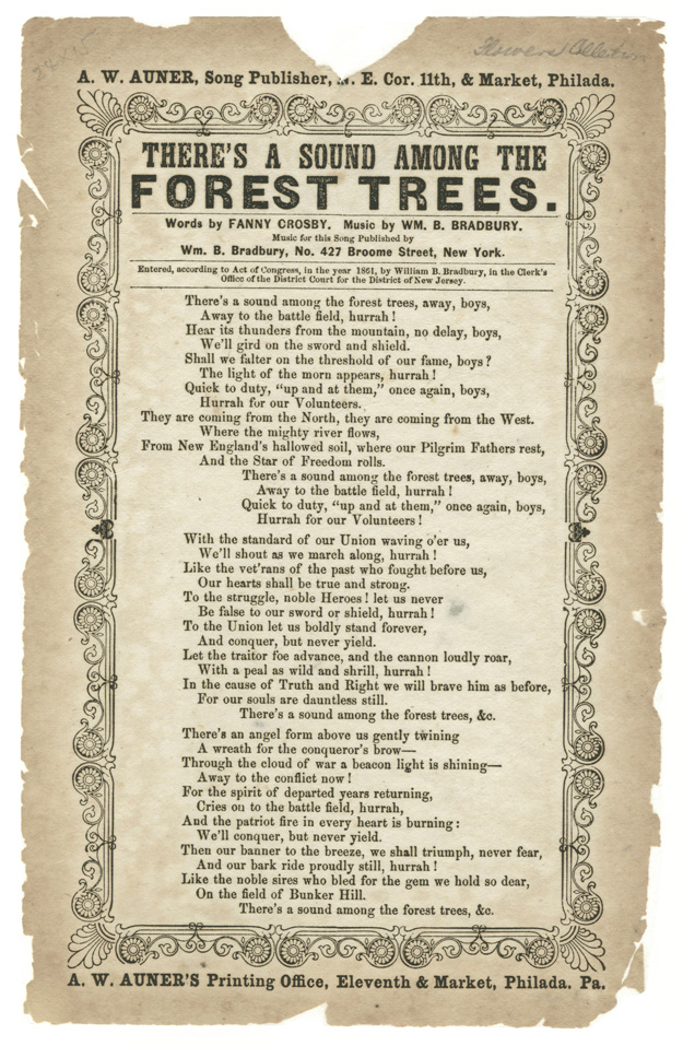 Songsheet published 1864 by A.V. Auner, Philadelphia, PA "There's a Sound Among the Forest Trees" Words: Fanny Crosby Music: William B. Bradbury Date: 1864 Civil War song